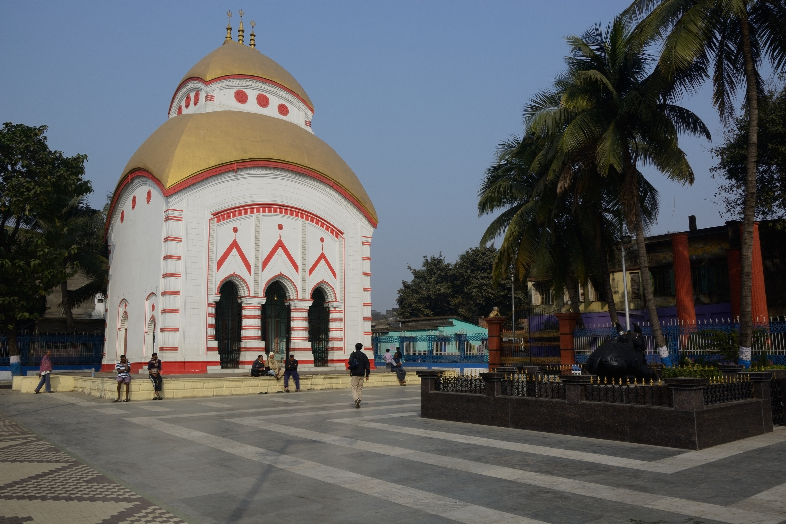 Bhukailash Shiv Temple, Khidirpur, Kolkata.